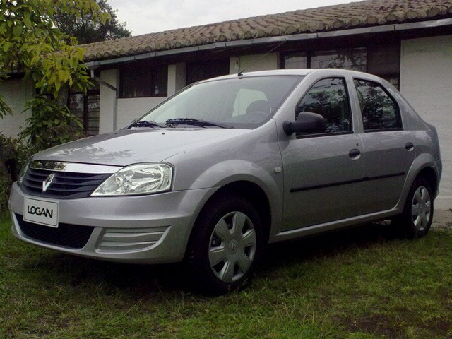 Picture of a Renault Logan sold in Ecuador.